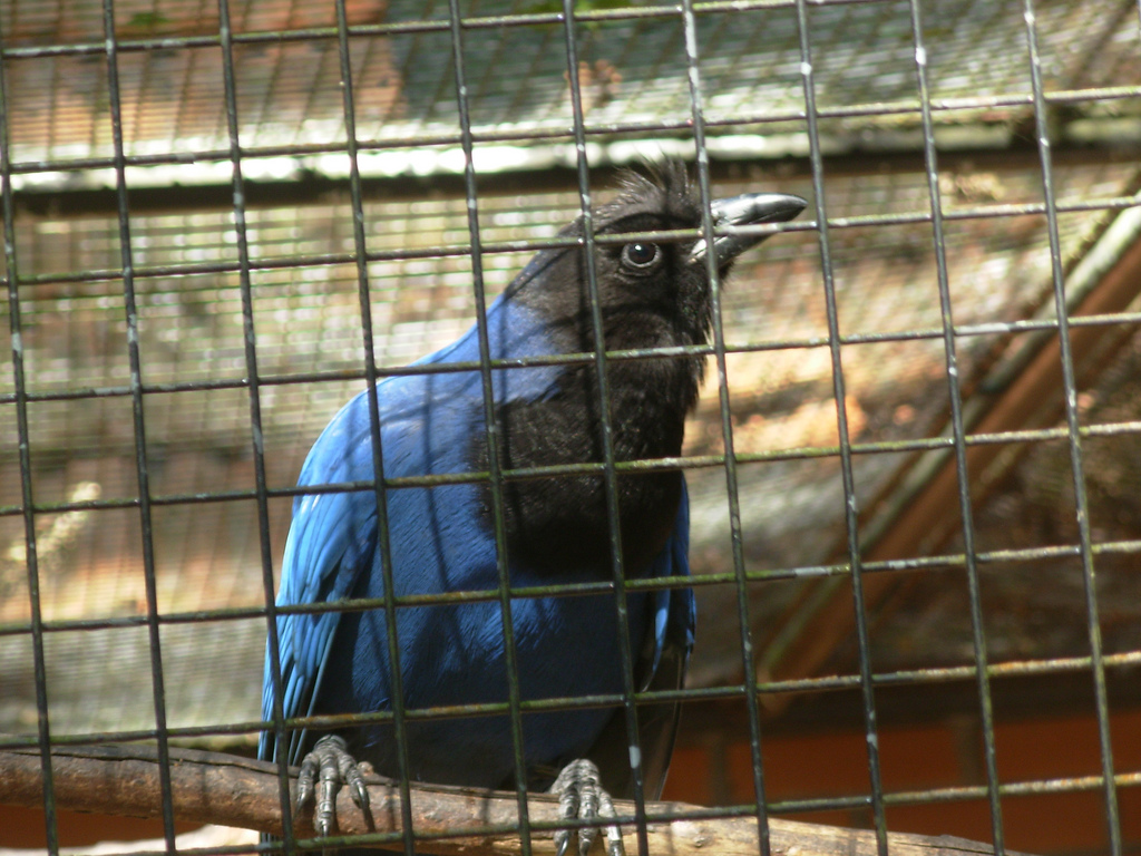 A Azure Jay at Curitiba Zoo, Parana, Brazil.